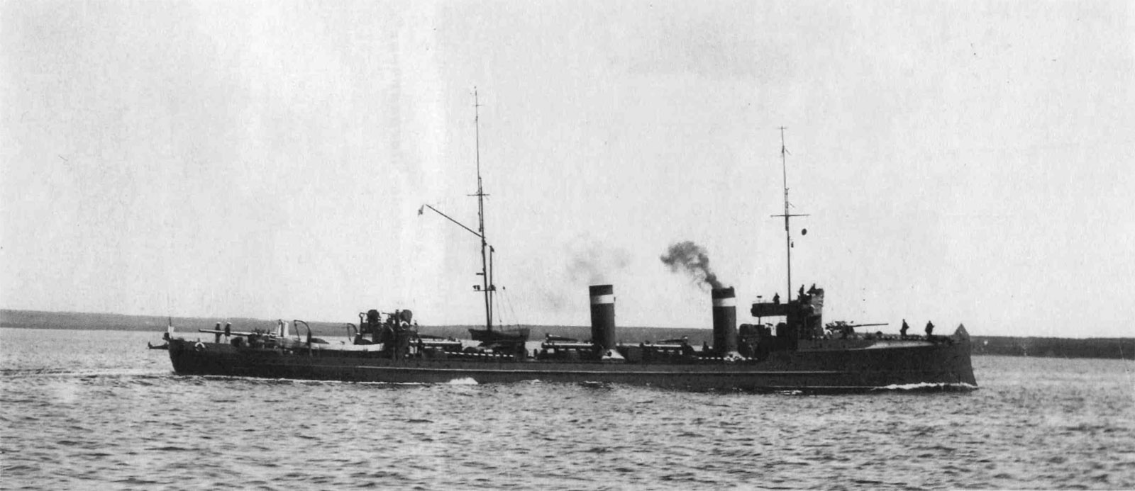 Imperial Russian destroyer Okhotnik.